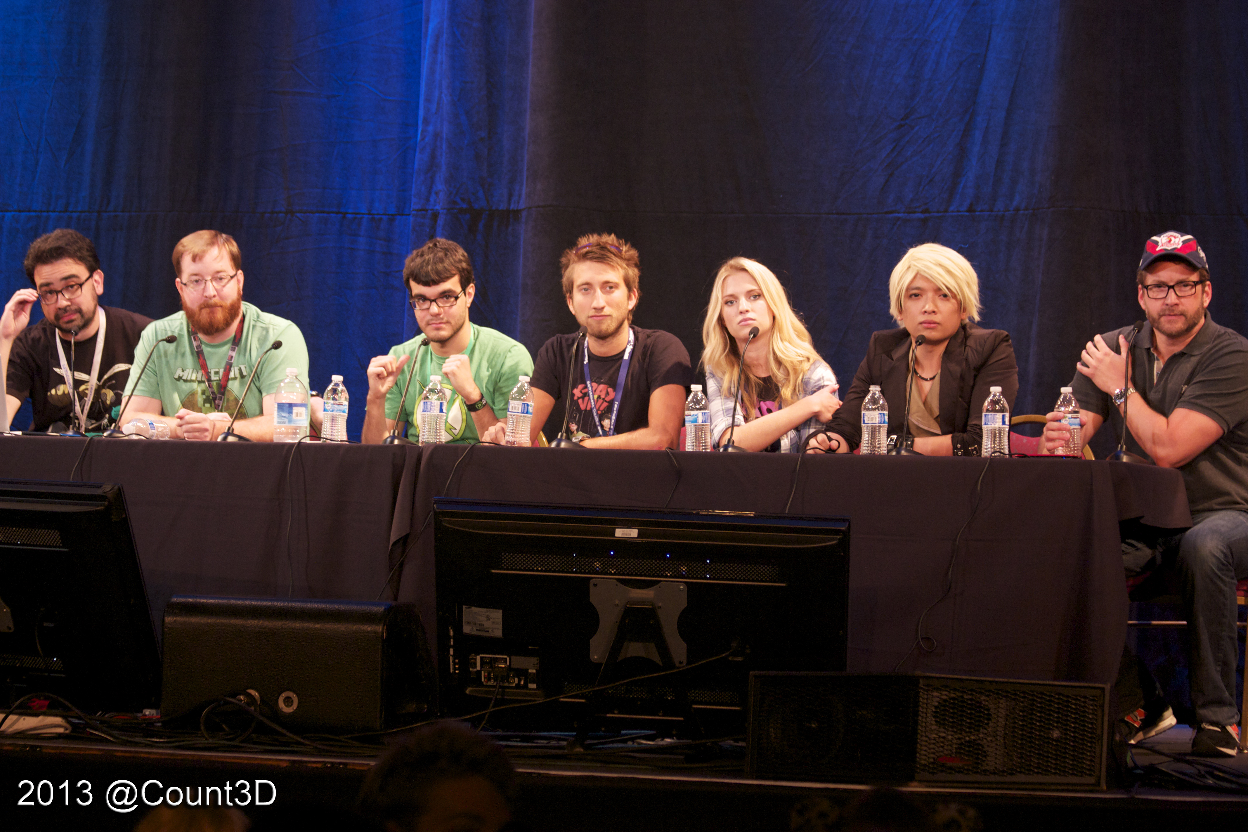 Rooster Teeth panel at PAX Prime 2013